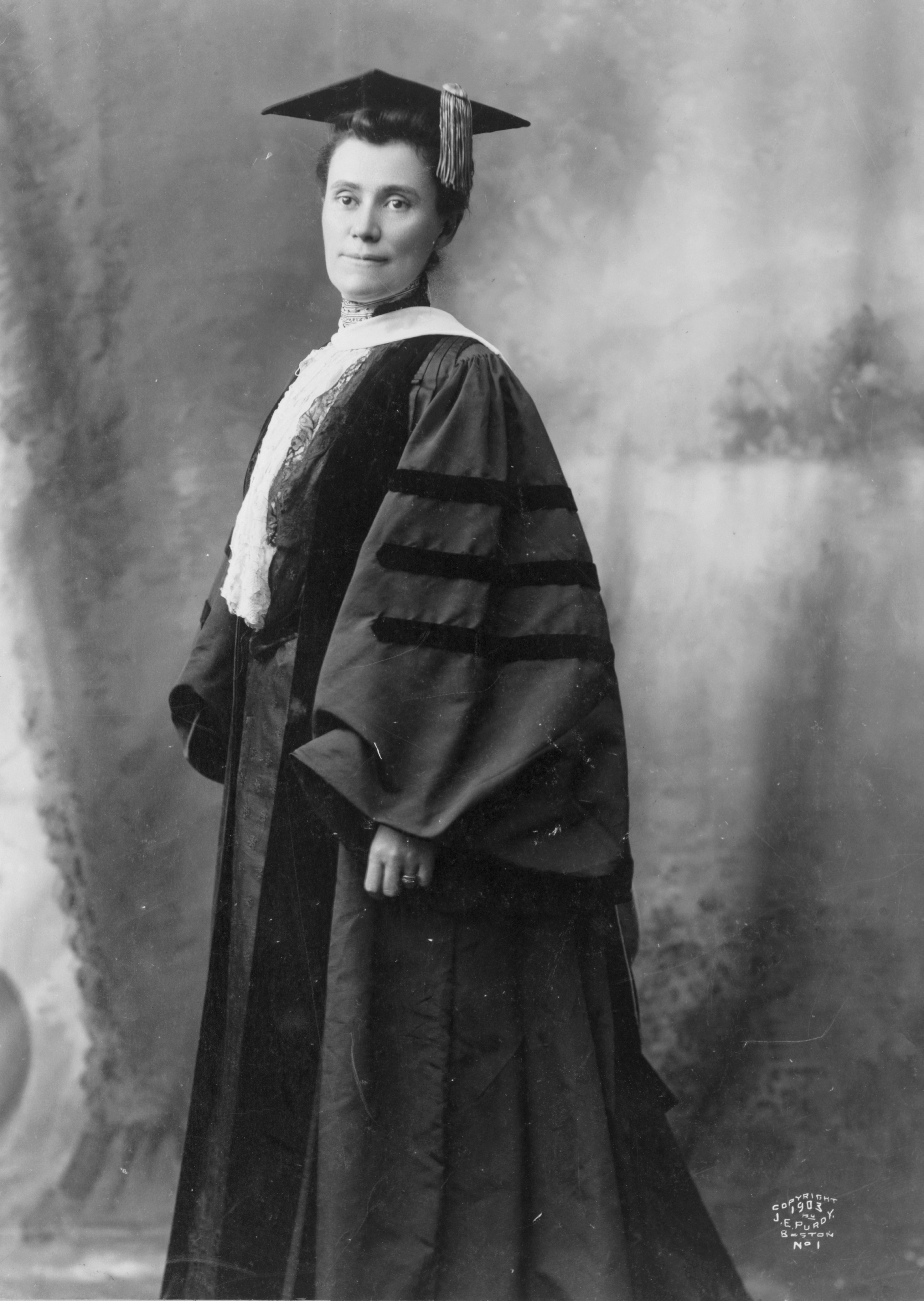 Mary Emma Woolley (1863-1947), an American educator, peace activist and women's suffrage supporter